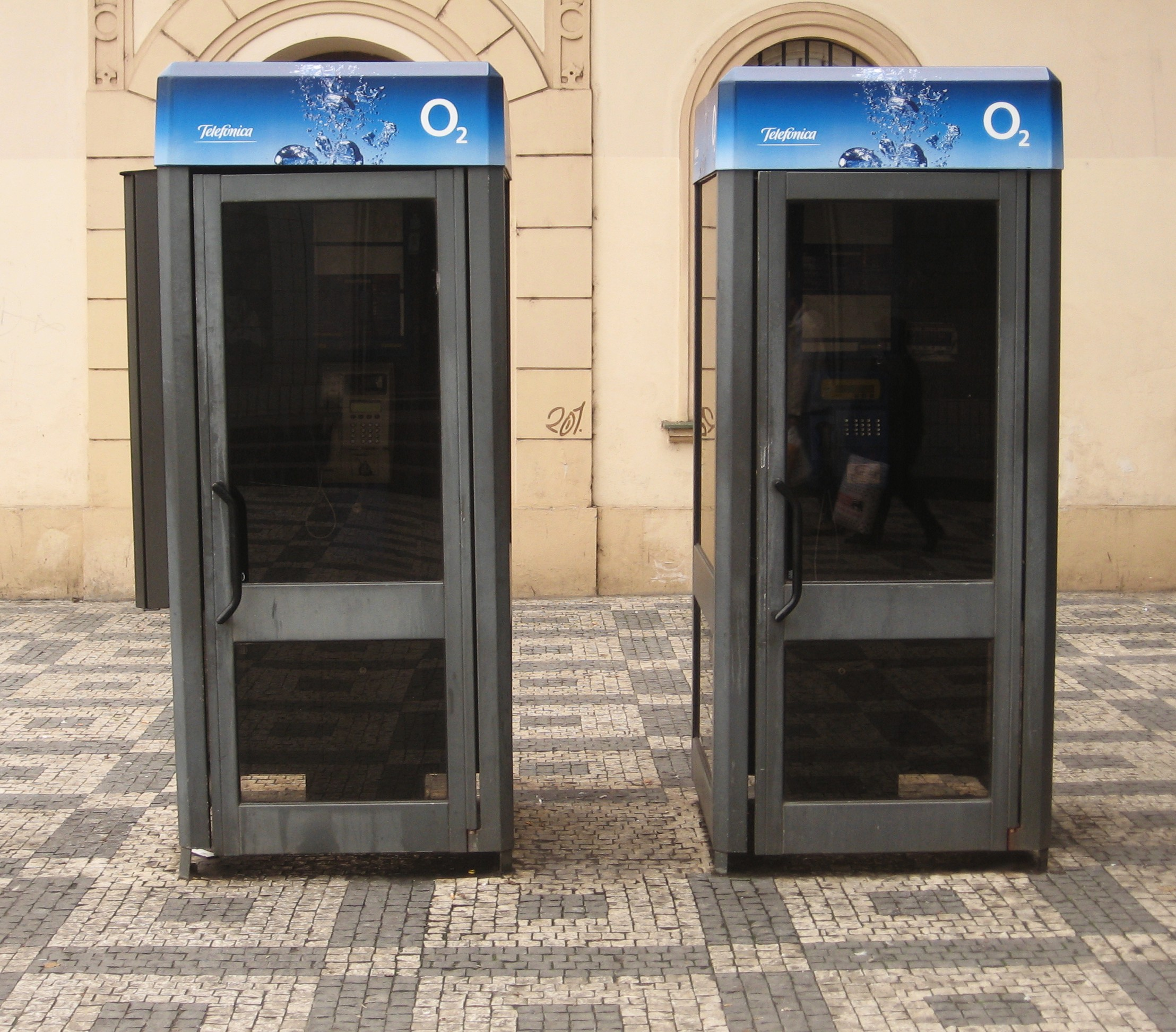 Czech phone boxes Telefónica O2